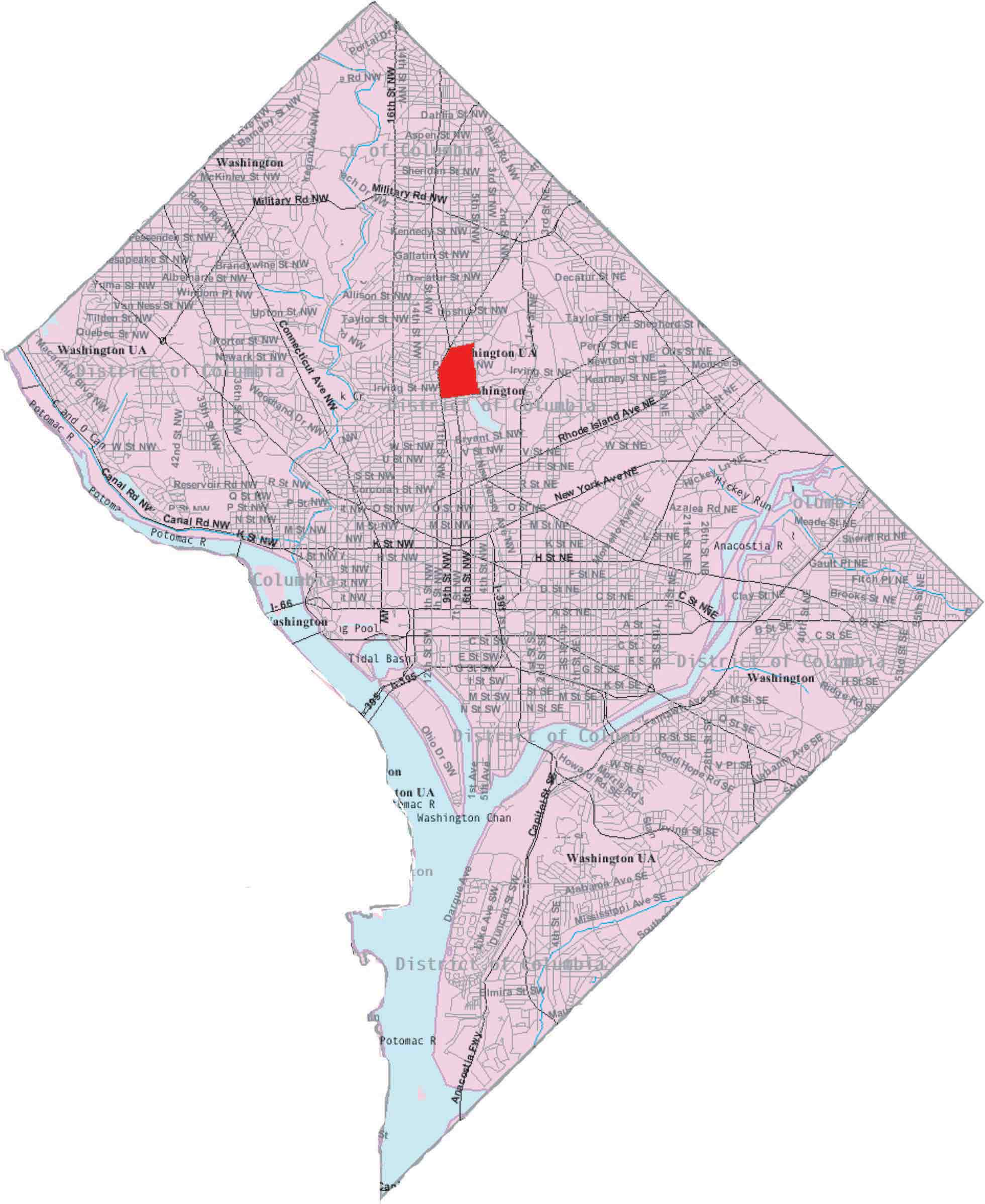 This image is a modified version of a self-generated reference map from the U.S. Census Bureau's American Factfinder at by Wikipedia user Msclguru.